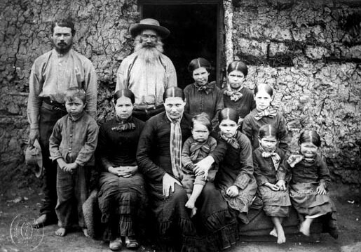 Family of Boers Original description as presented by the Swaziland National Trust Commission's Digital Archives: "Boer Family, 1886. The Boers (Afrikaans for farmers) were of Dutch descent. Recognized by many as farmers and cattle owning resourceful people who when faced with situations they did not like (anything to do with British rule in the Cape) they loaded up their ox-wagons and left. Their life and values were based upon the Old Testament Bible which was the guide on their travels. The Bible was their justification for peace. Because of their isolation they suffered from social ostracisation. When they were faced with loss of property and political control by the British quest for land and gold they stood their ground and fought back - the results were the Boer Wars. The Brits vs the Boer"